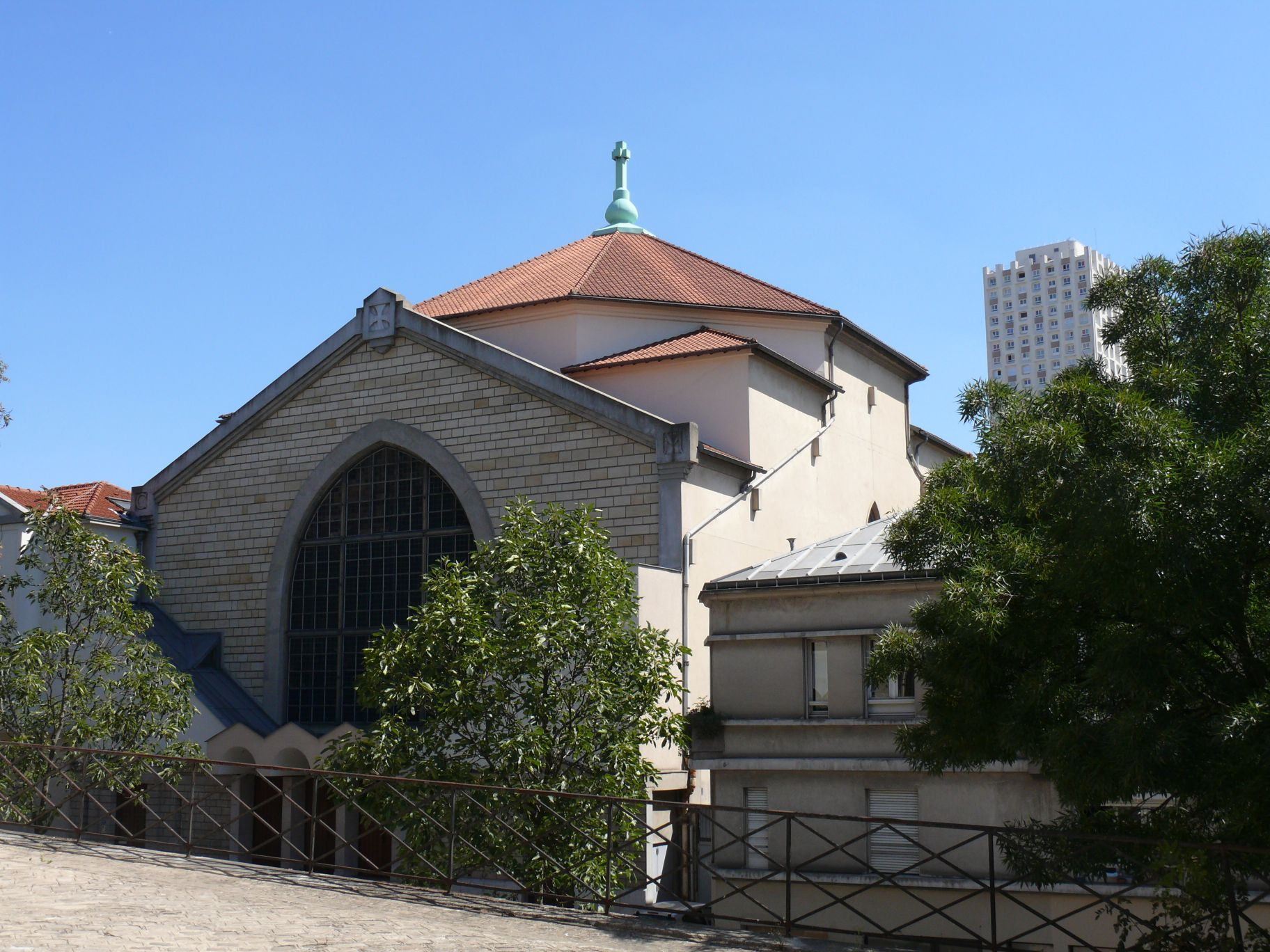 Saint-Cyrille-Saint-Method's church, in Paris (Paris XX, France)